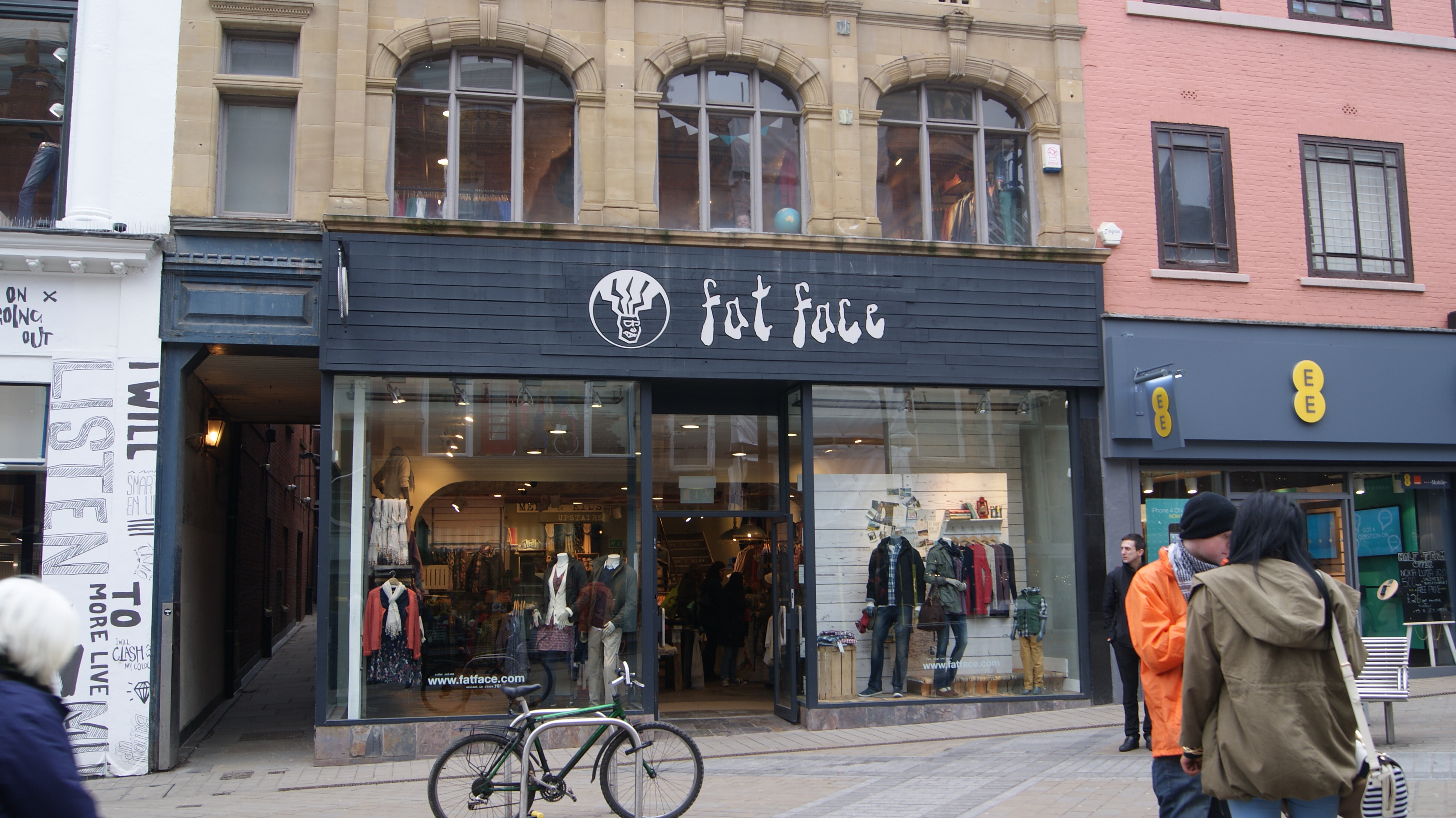 Fat Face, Briggate, Leeds, West Yorkshire. Taken on the afternoon of Wednesday the 20th of February 2013)